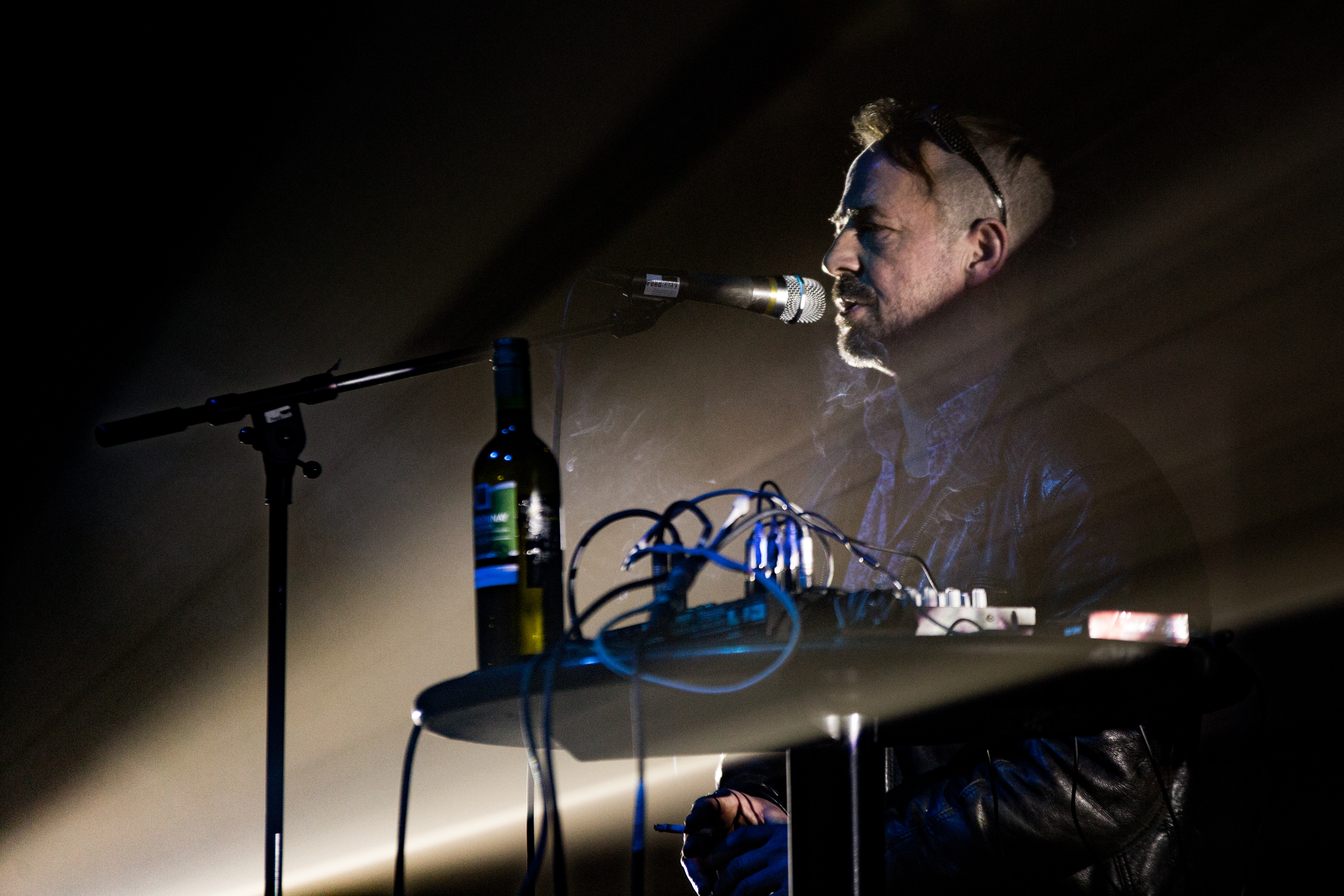 Maschinenfest 2016 October 14th-16th, 2016 Turbinenhalle Oberhausen